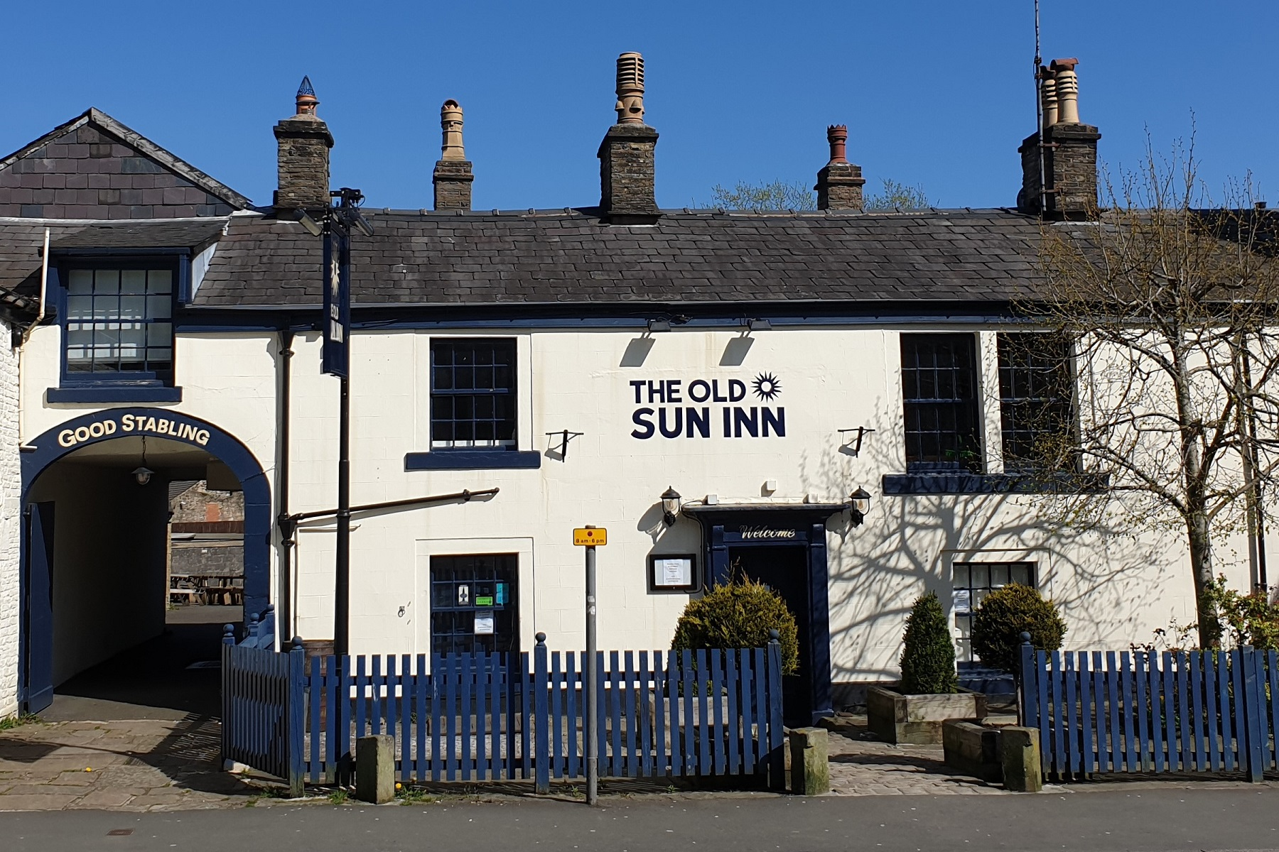 Old Sun Inn at Buxton